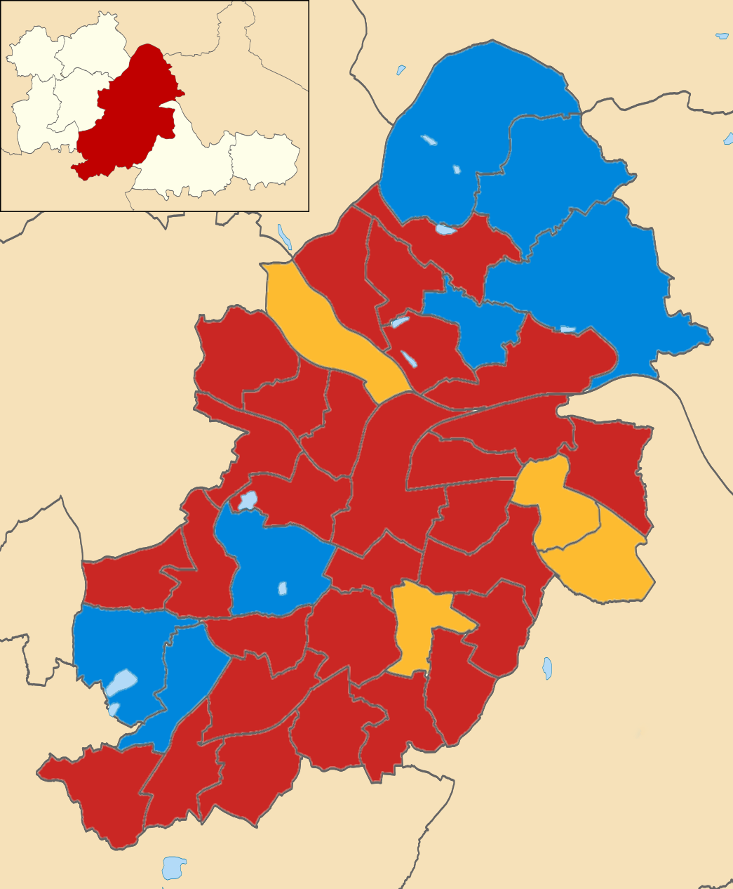 Results of the 2012 local elections in Birmingham Colours: Conservative Labour Liberal Democrat